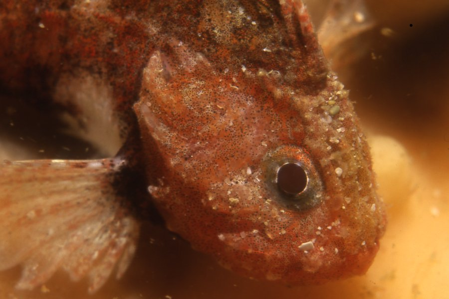 smoothskin scorpionfish, Coccotropsis gymnoderma, waspfish